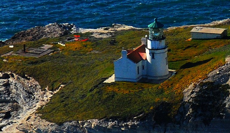 Aerial photo: Point Conception Lighthouse in Santa Barbara County, California. Several more structures and old foundations are out of frame to the right in this view toward the northwest.